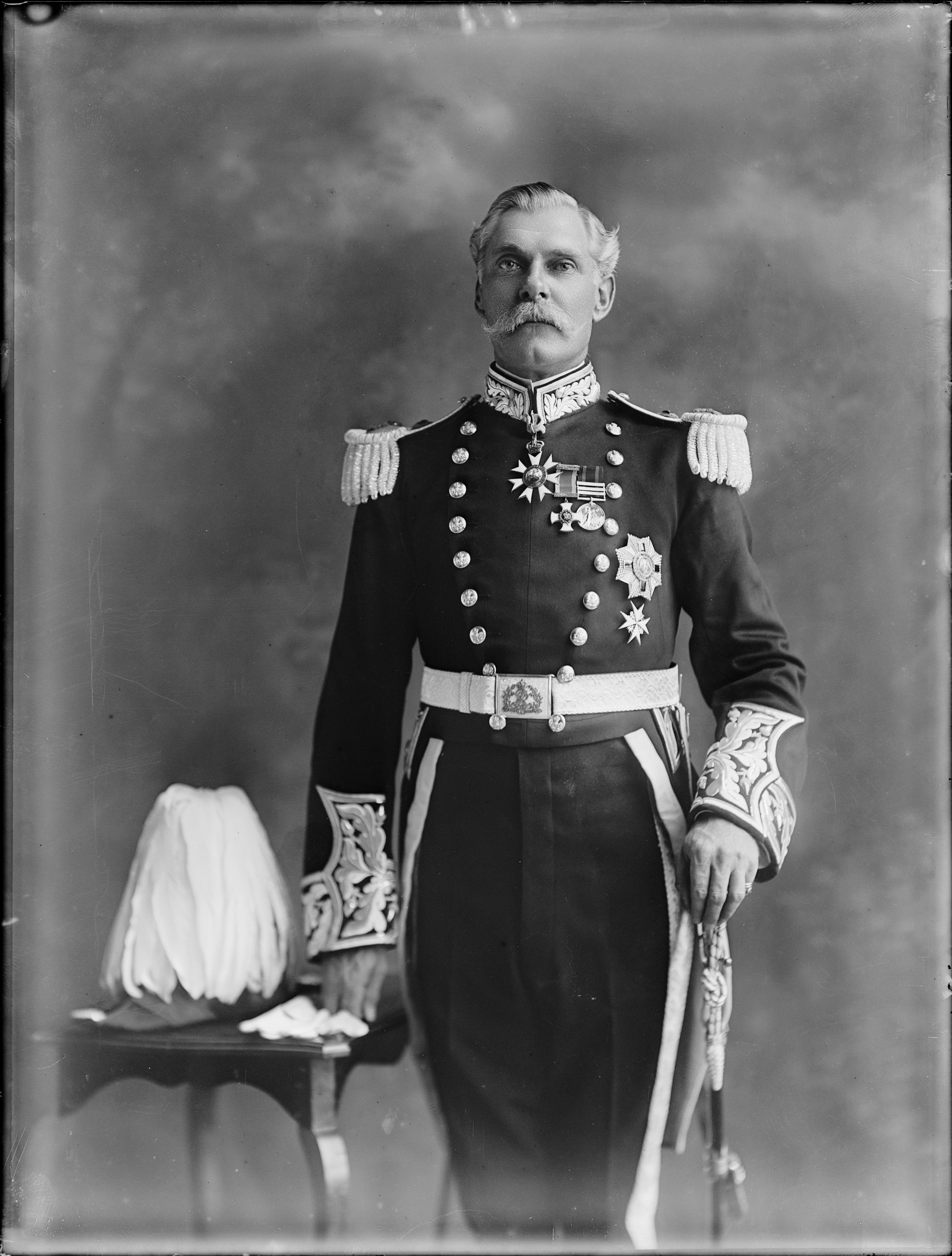 Standing portrait of Lord Islington during his tenure as Governor of New Zealand.